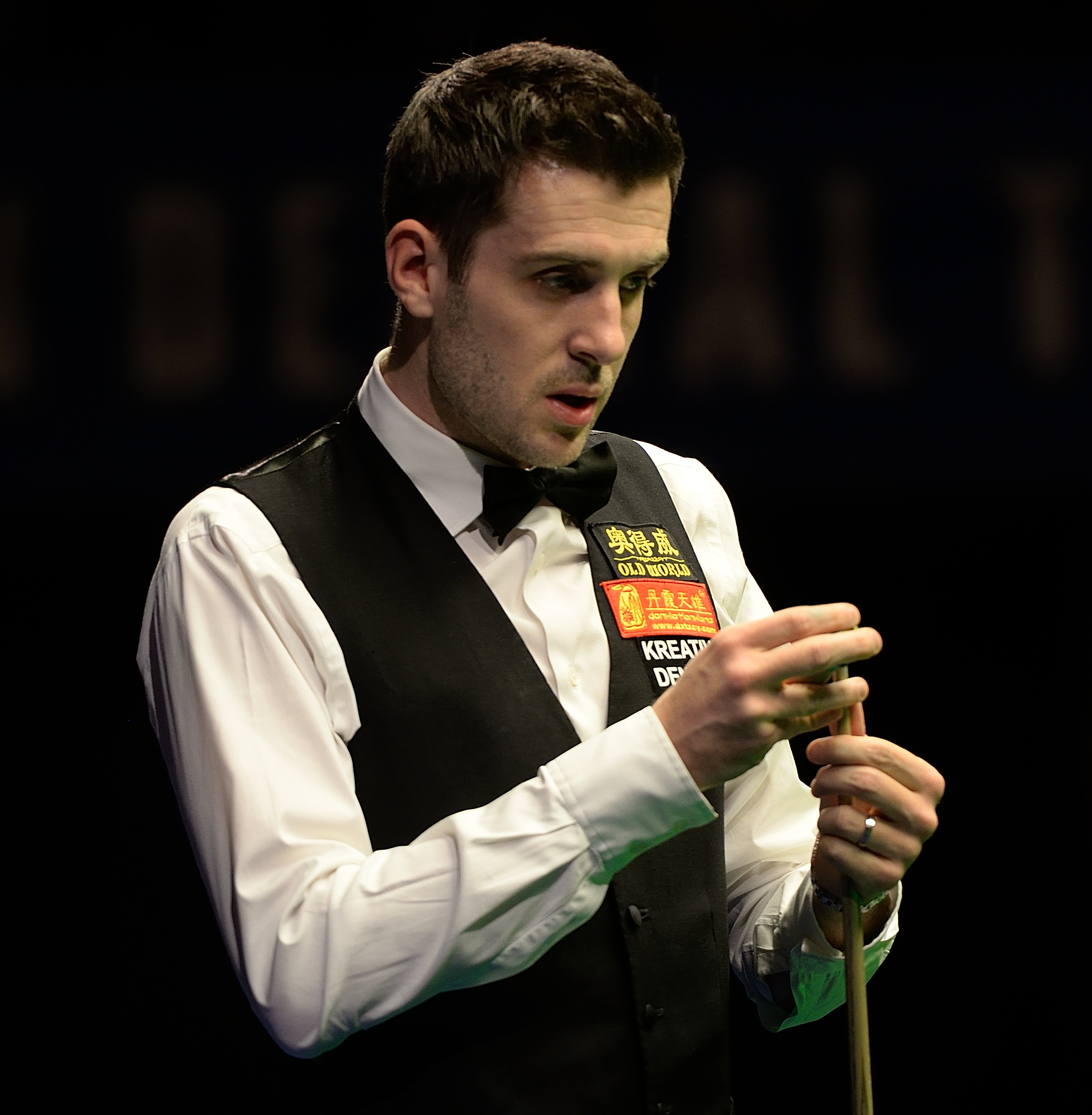 Picture taken in Berlin during the Snooker German Masters in 2015. Mark Selby.